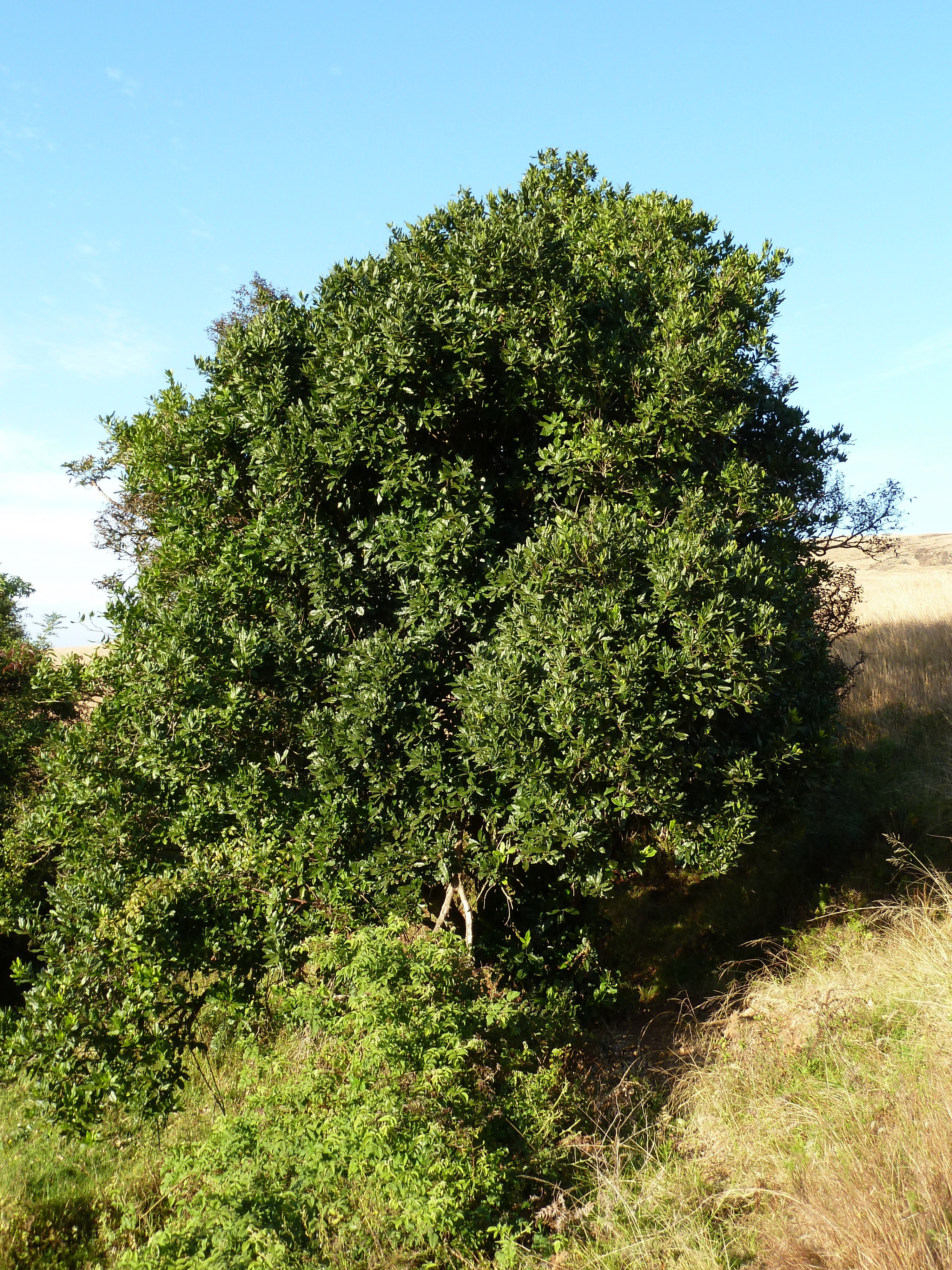 Habit of a Lemonwood, near Louwsburg, KwaZulu-Natal